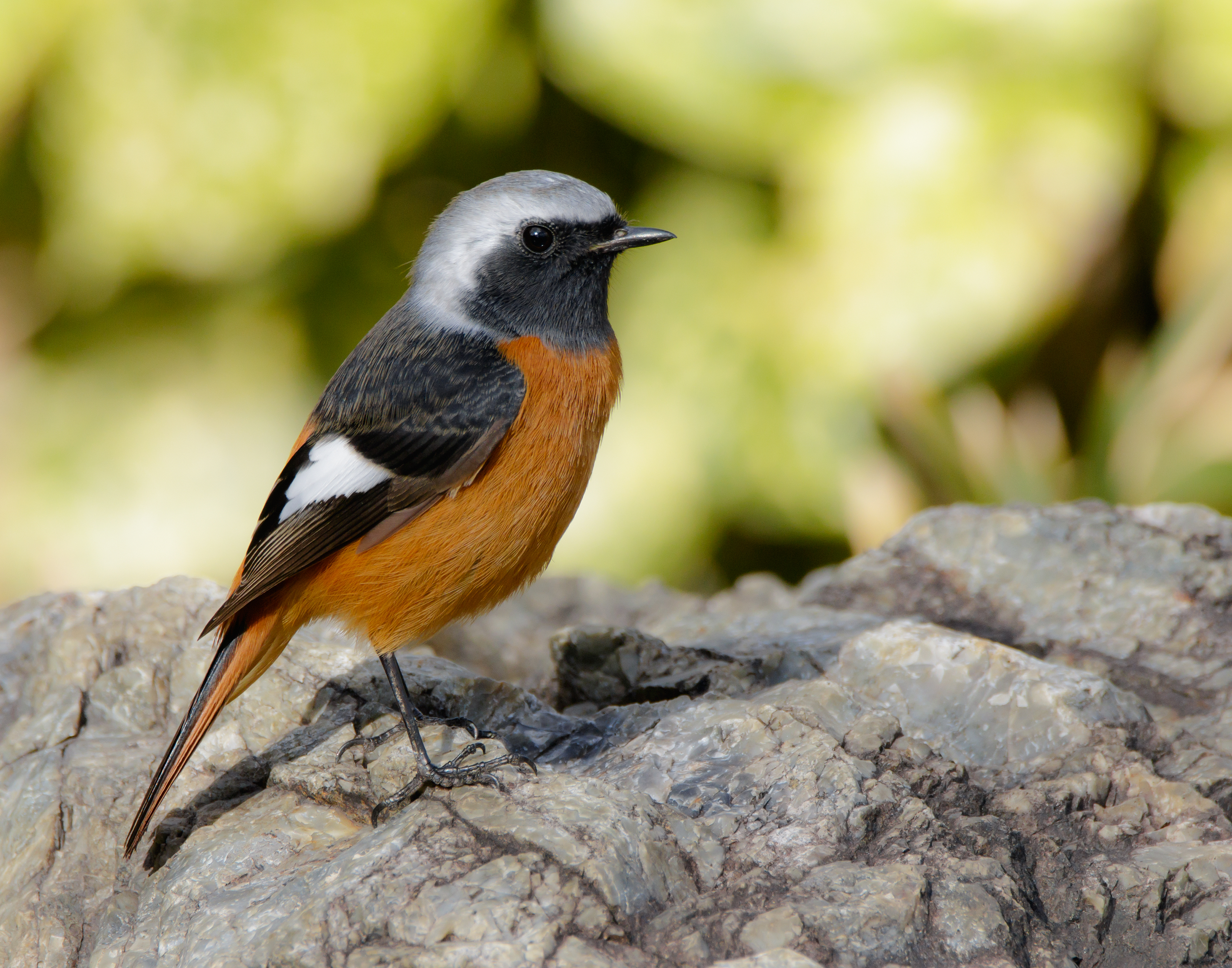 Daurian redstart at Daisen Park in Osaka.